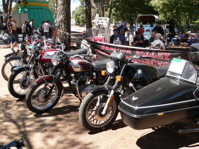 The local Barossa Valley Classic Motorcycle Club's display at the 2007 Tanunda Show